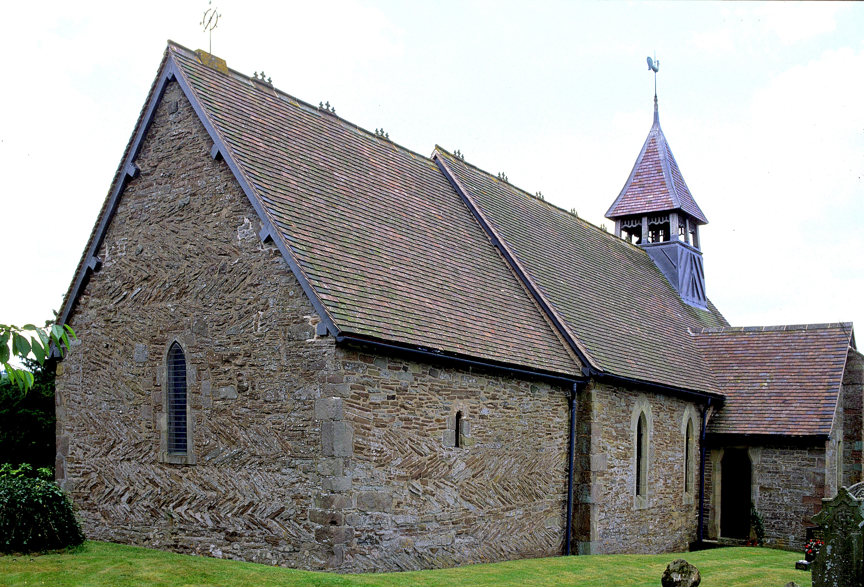 St Margaret's parish church, Clee St Margaret, Shropshire, seen from the northeast